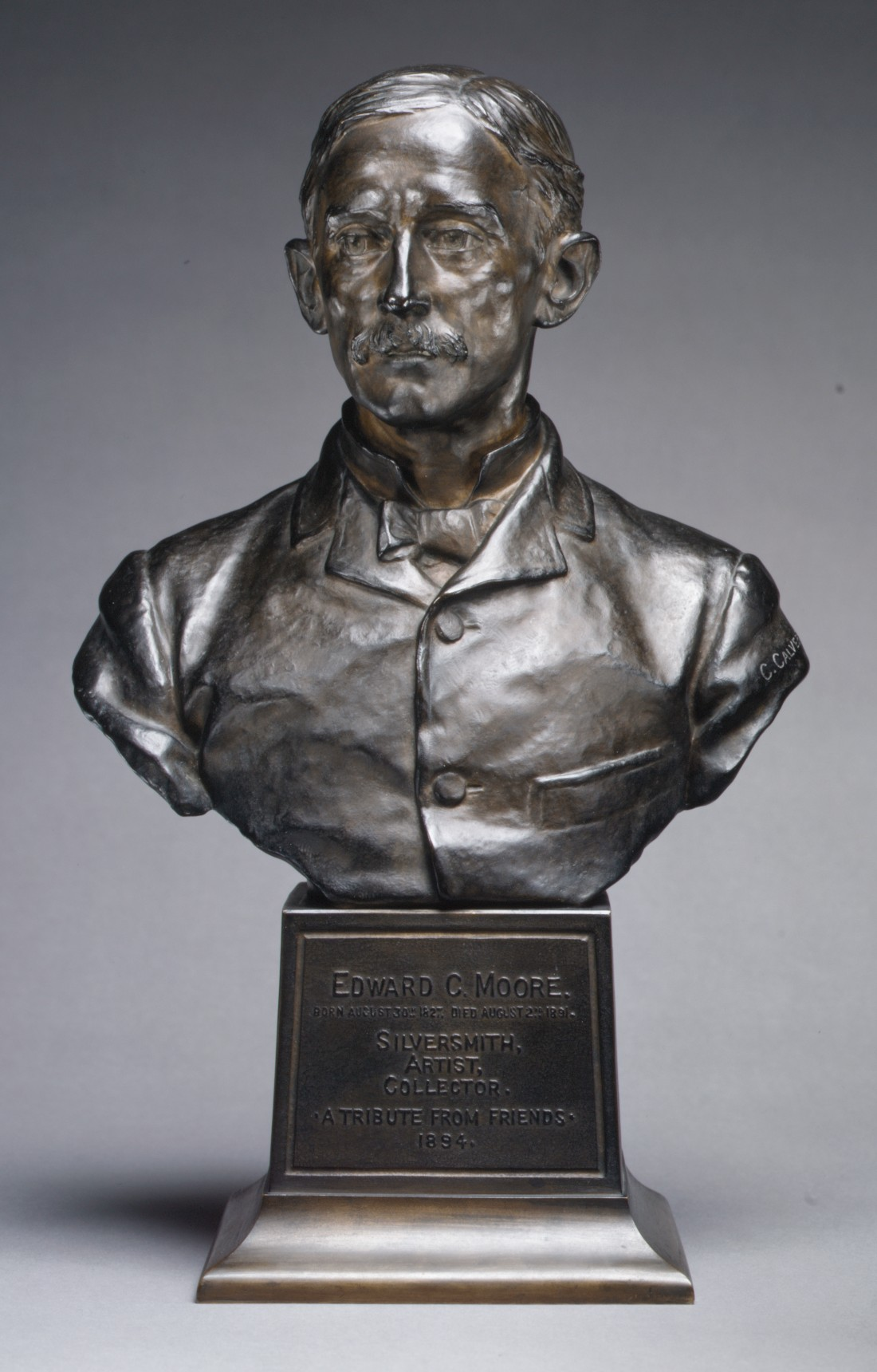 In 1894 Charles Calverley modeled this bust of Edward C. Moore (1827–1891), an American silversmith, art collector, and benefactor of The Metropolitan Museum of Art. Three years earlier, Moore had bequeathed his extensive collection of glass, ceramics, and metalwork to the Museum. For many years he was in charge of designing and manufacturing silverware at New York's Tiffany & Co. This portrait was commissioned by Moore's friends as a tribute after his death.